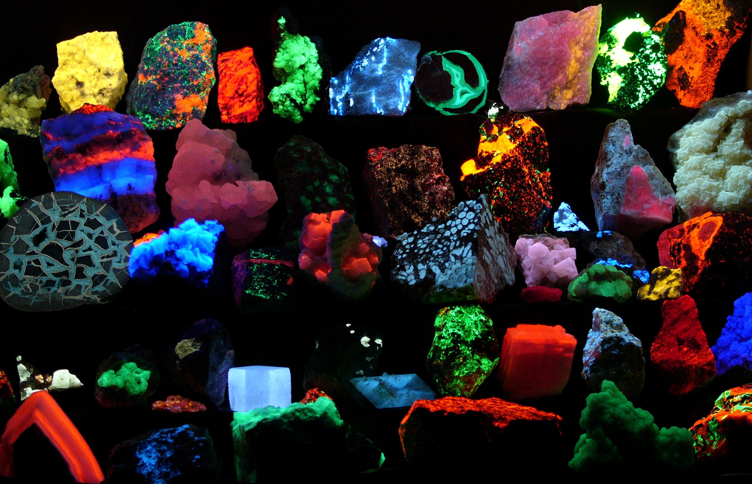 Collection of various fluorescent minerals under ultraviolet UV-A, UV-B and UV-C light. Chemicals in the rocks absorb the ultraviolet light and emit visible light of various colors, a process called fluorescence.